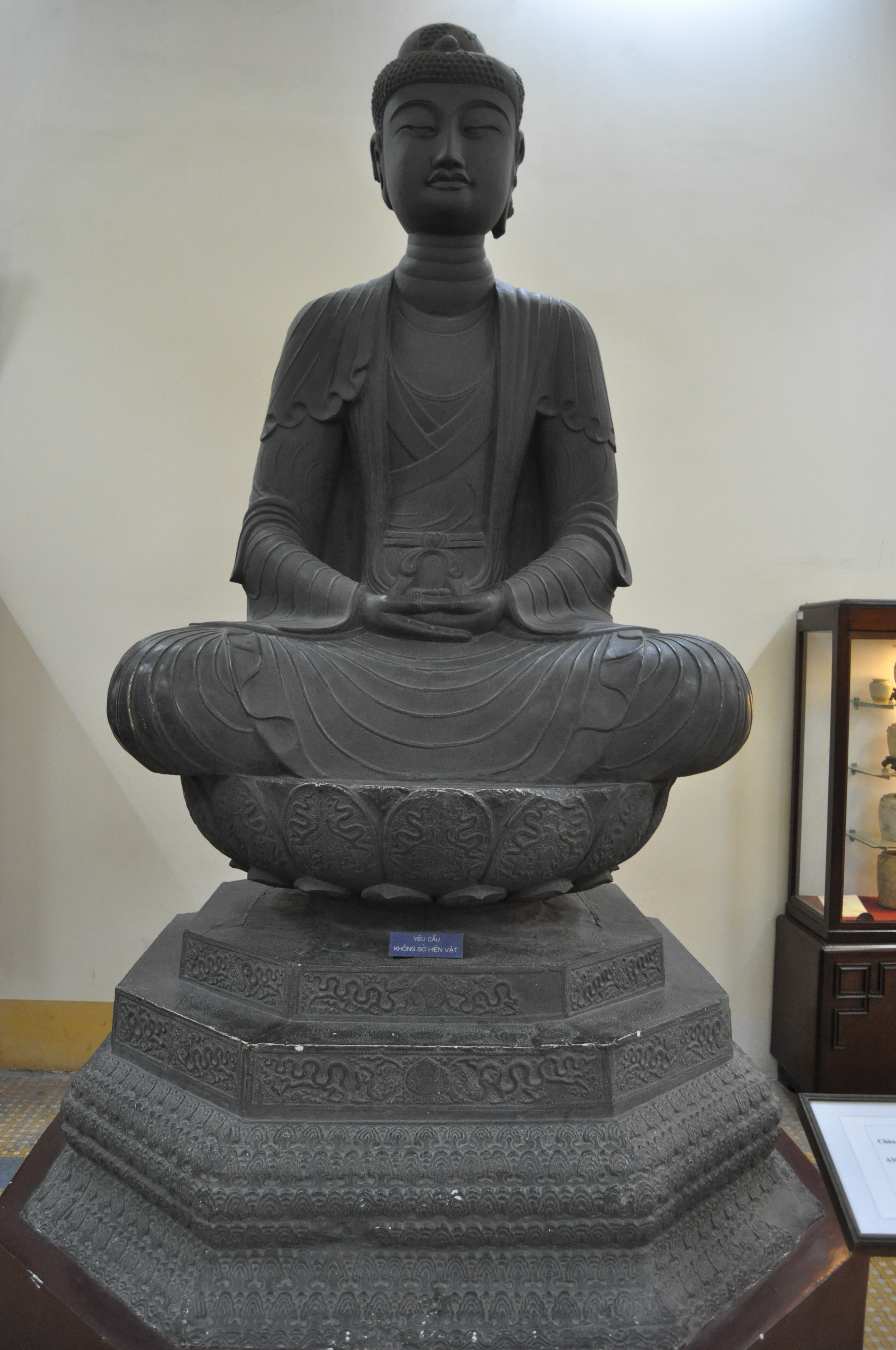 Amitabha, Phat Tick pagoda (Bac Ninh Province) 11th Century (Replica) at room 4 Ly Dynasty (11th - 13th c.) of the Museum of Vietnamese History